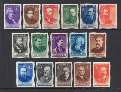 Stamp of USSR